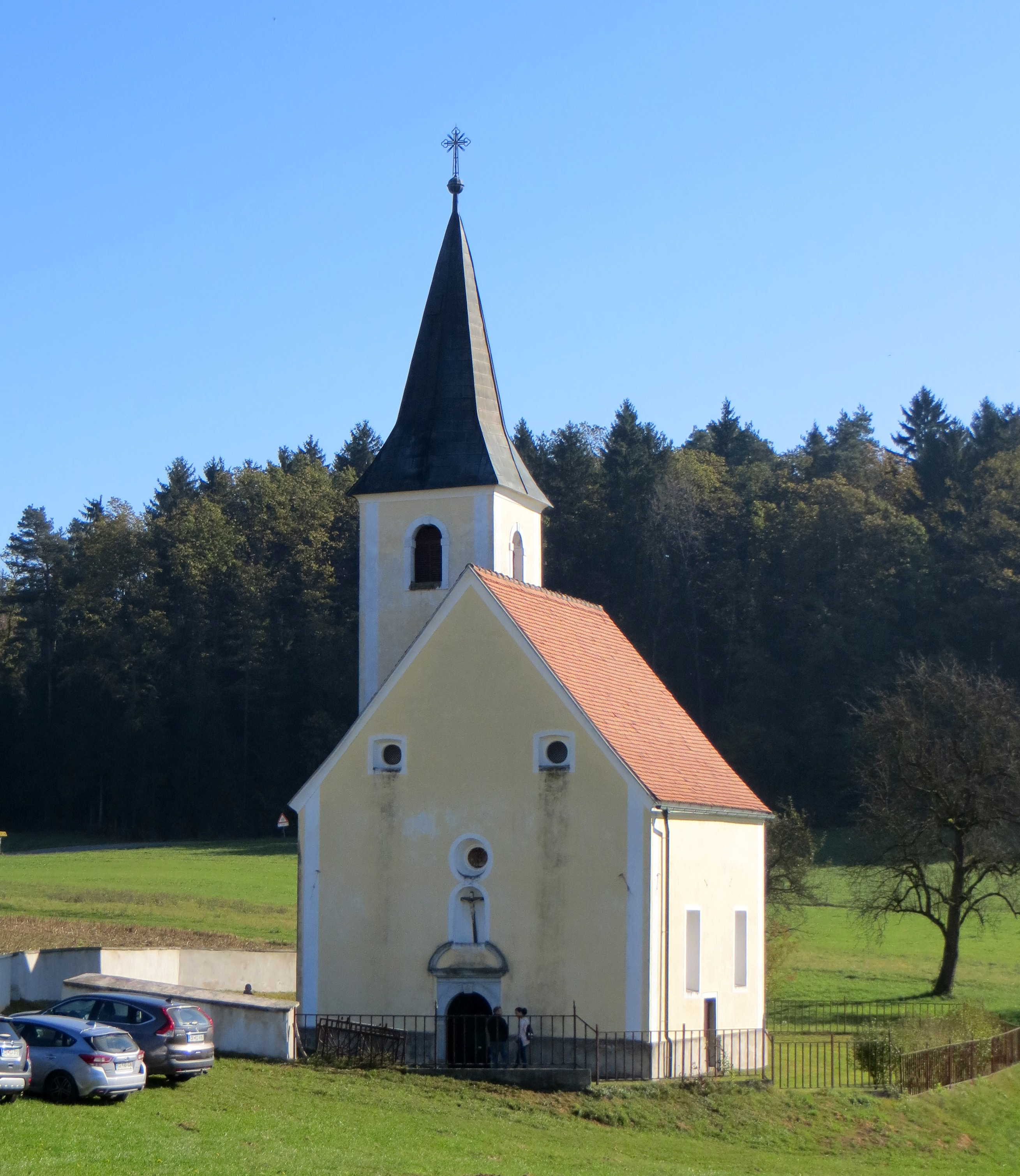 Saints Primus and Felicianus Church in Primož pri Šentjurju, Municipality of Šentjur, Slovenia